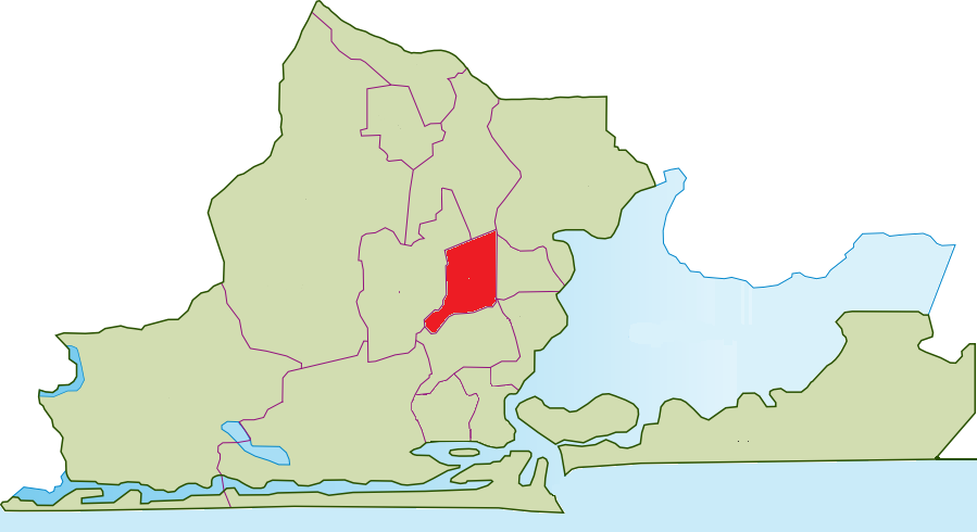 Location of Mushin within Lagos Metropolitan Area